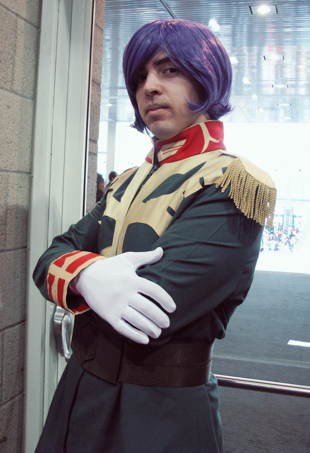 A picture of Gharma Zabi from 'Mobile Suit Gunam' cosplay at Anime Expo 2013